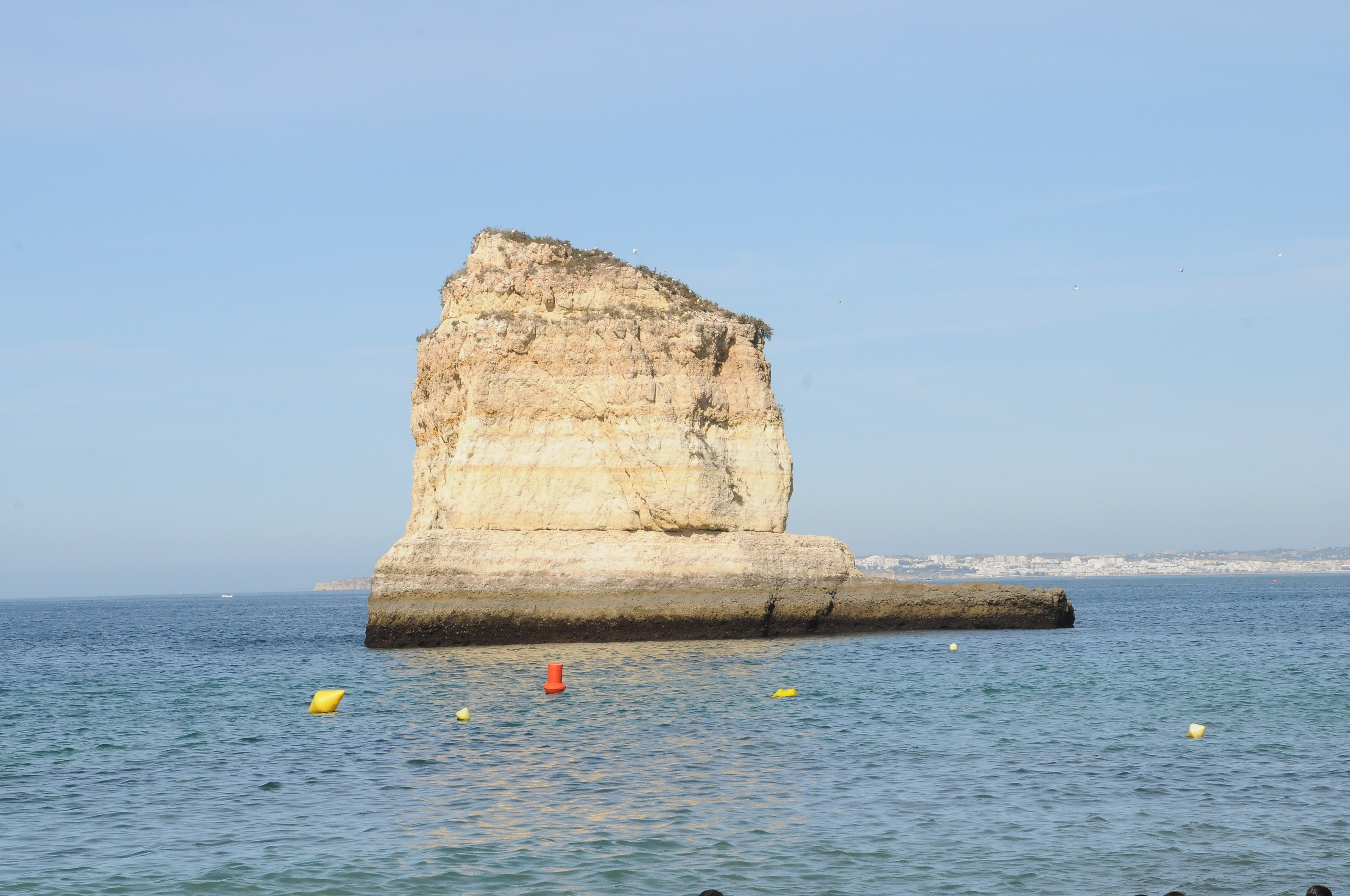 Rock in Caneiros Beach, Algarve.